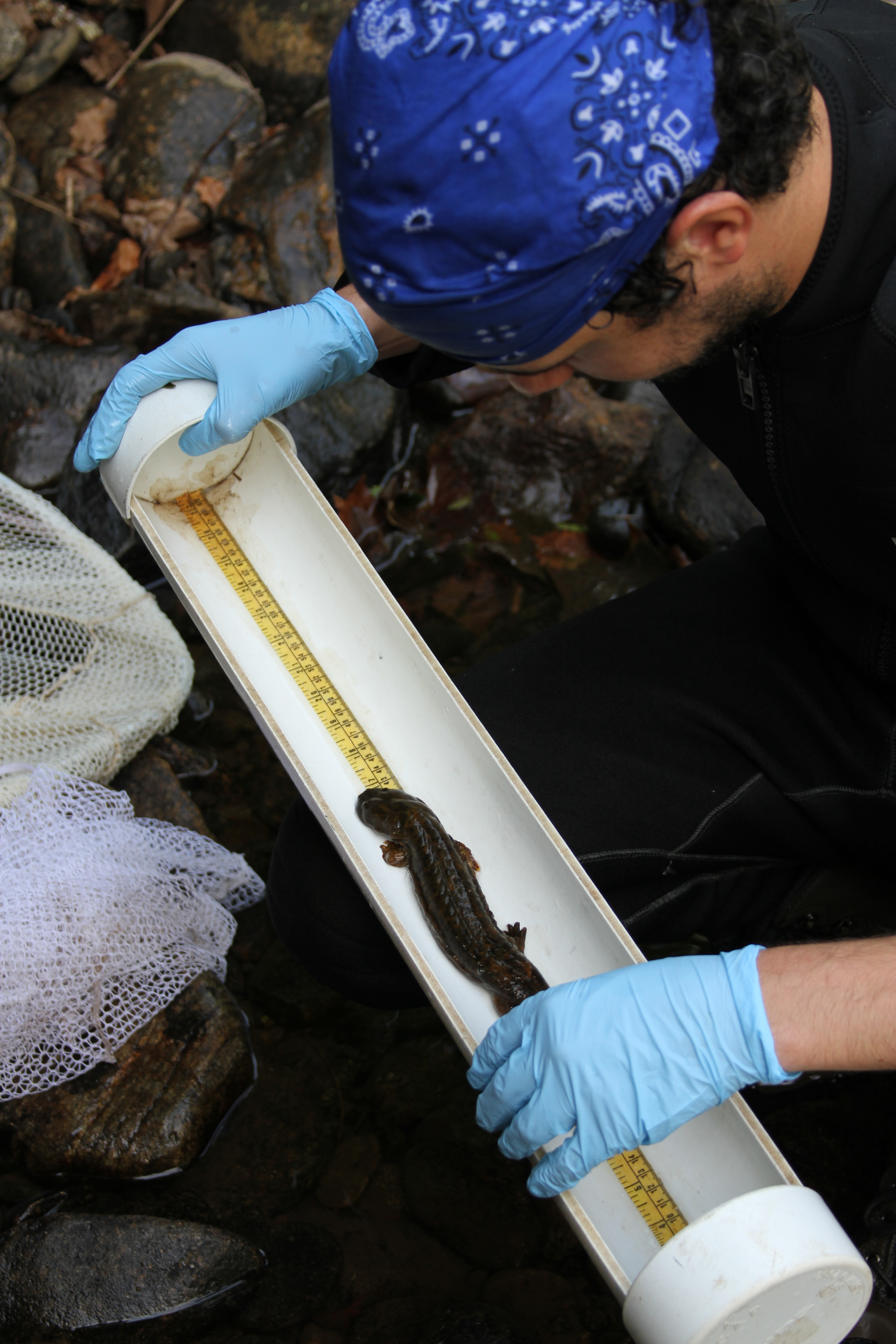 At up to two and a half feet in length, Eastern hellbenders can be an impressive sight. These aquatic salamanders are found in Appalachian streams, and have declined to the point that they’ve been considered for addition to the federal endangered species list. Despite their size, they’re harmless to people, and in fact help by serving as indicator species – the health of hellbender populations is an indicator of stream health. Because of their conservation importance, biologists often keep tabs on hellbenders. Biologists from the North Carolina Wildlife Resources Commission, N.C. Division of Water Resources, U.S. Fish & Wildlife Service, North Carolina Zoo, Appalachian State University, and Virginia Zoo recently surveyed hellbenders in a handful of mountain streams. Once the biologists captured a hellbender, they measured and weighed it; determined its sex; swabbed its skin to test for chytrid fungus which is responsible for massive, widespread amphibians deaths; tagged it with a Passive Integrated Transponder, or PIT, tag, providing the animal with a unique identifier - just like micro-chipping your pet; and finally took a small clip of tail tissue to track genetics. Credit: Gary Peeples/USFWS